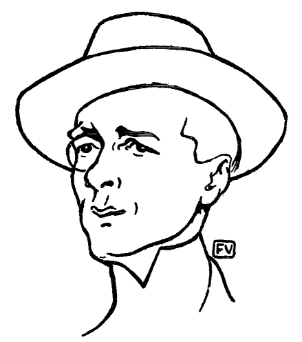 Portrait of French writer Marcel Boulenger (1873-1932) by Félix Valloton (1865-1925)